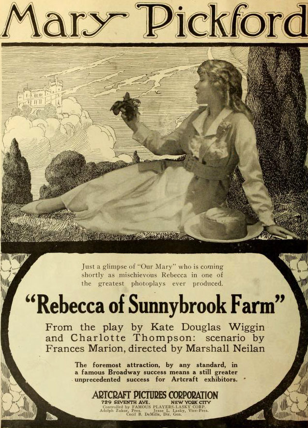 Advertisement in the August 1917 Moving Picture World for Mary Pickford in the American film Rebecca of Sunnybrook Farm (1917).